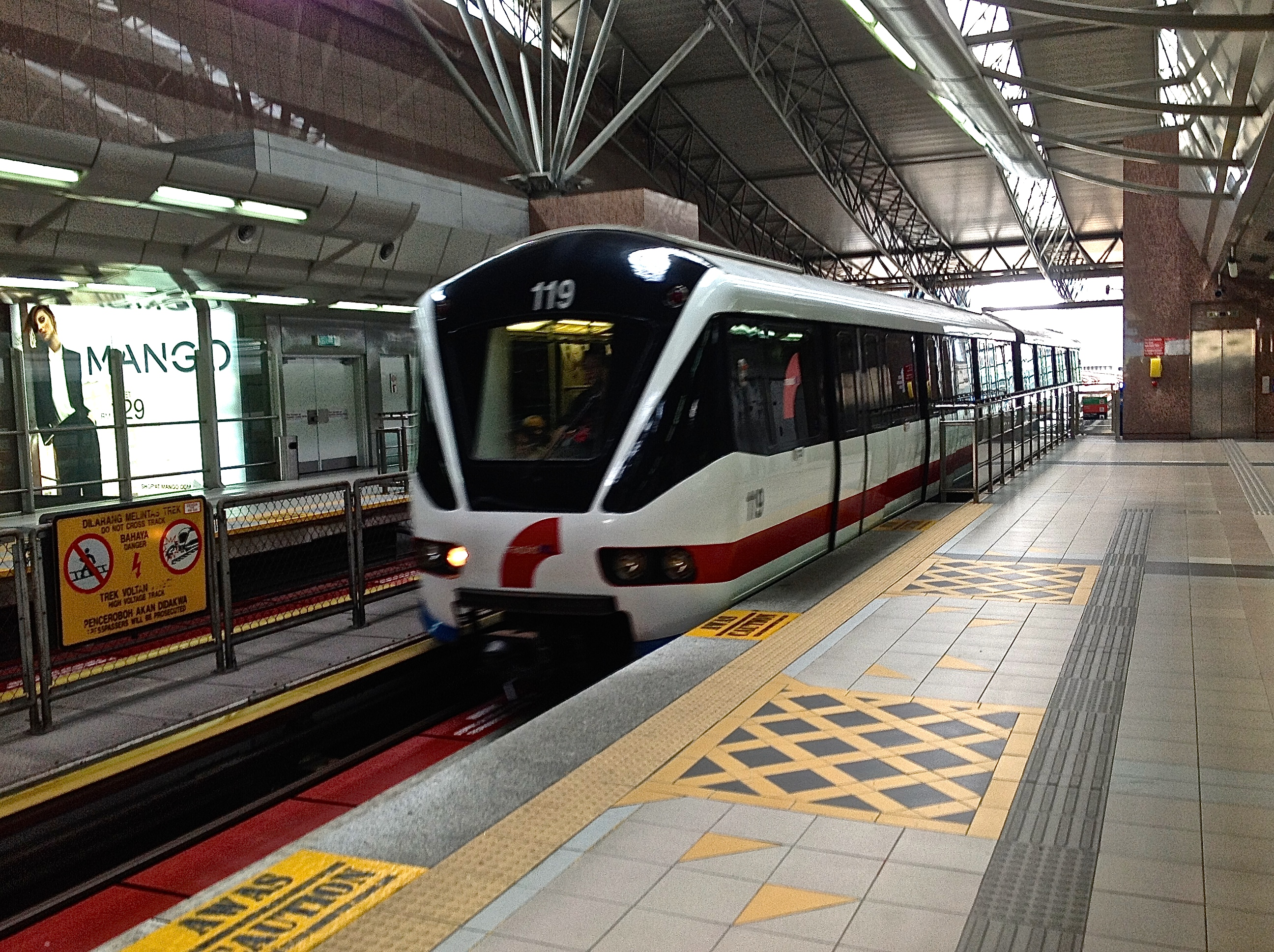 KL train at KL Sentral, Kuala Lumpur